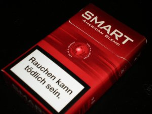 Smart American Blend